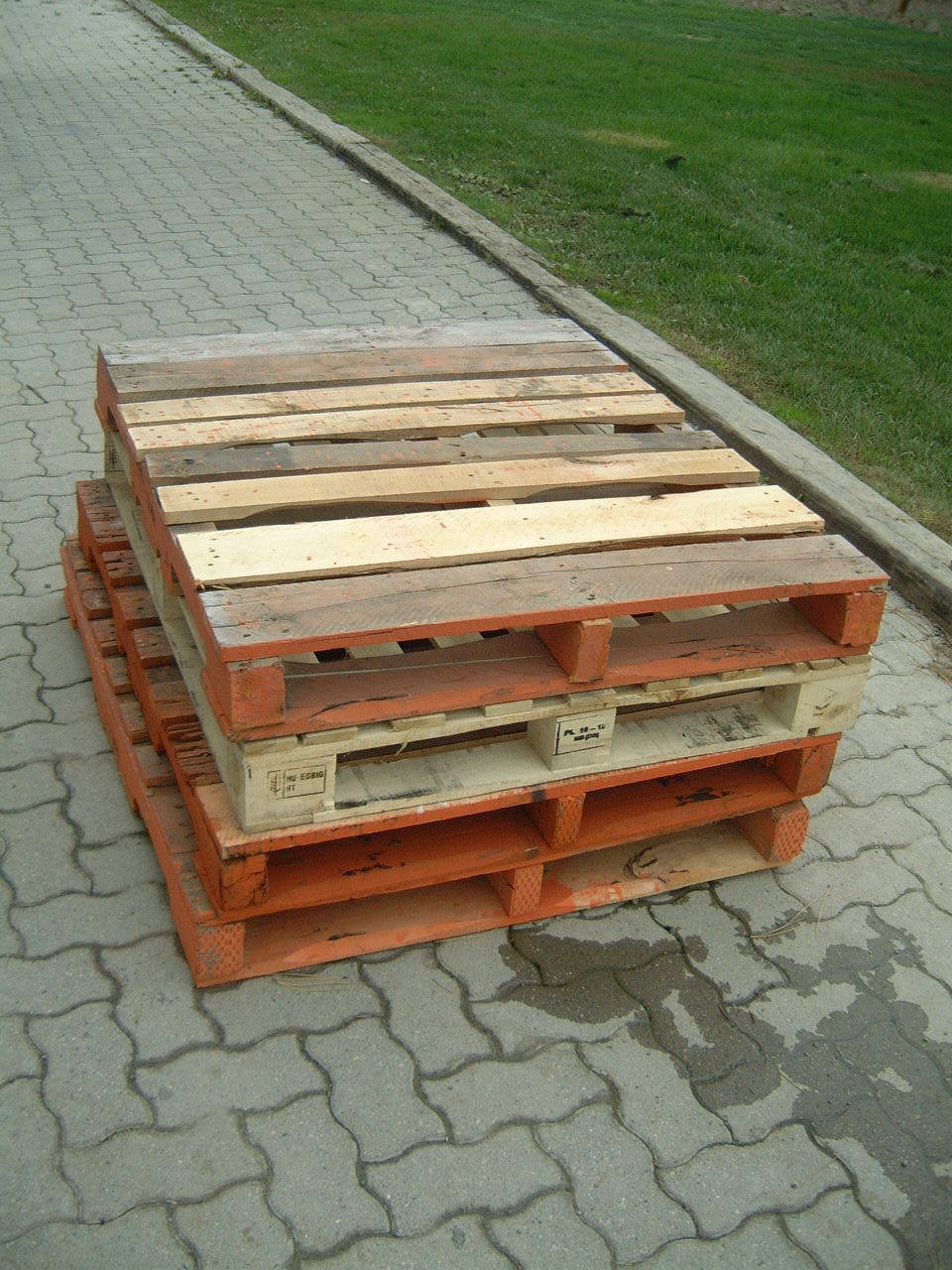 Wooden pallets at Inniskillin vineyard, Niagara-on-the-Lake, Ontario, Canada.